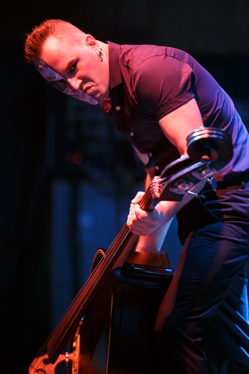 Djordje Stijepovic, bass player of Tiger Army, playing double bass in concert.